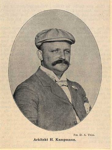 Danish architect Hack Kampmann (1856-1920)